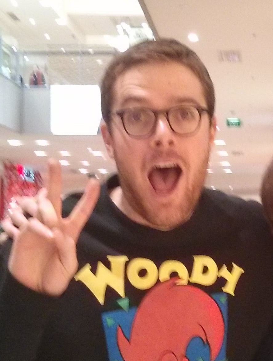 Guy Williams on 25 July 2015 in Westfield Riccarton.